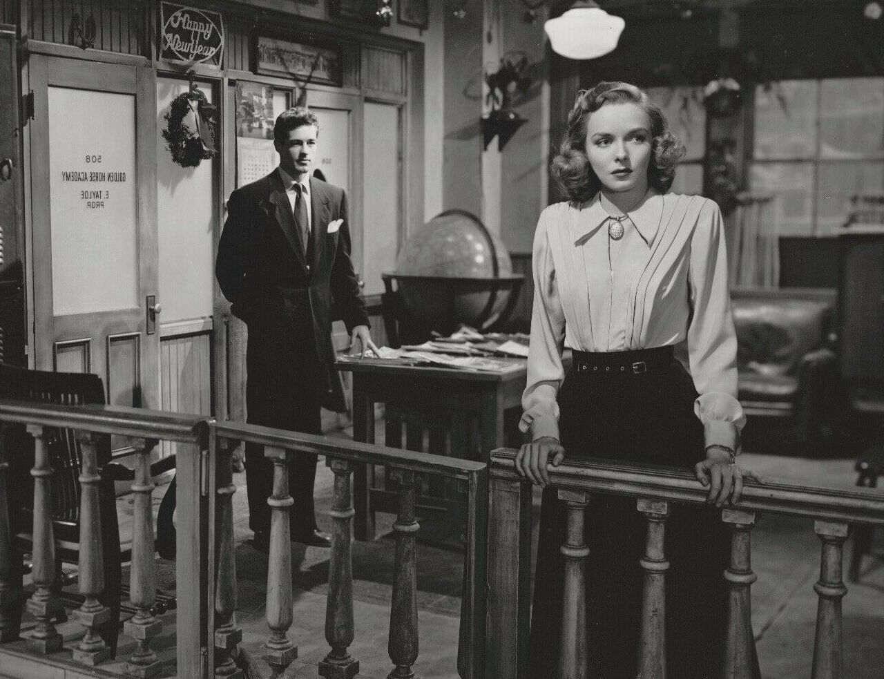 Guy Madison and Diana Lynn in "Texas, Brooklyn & Heaven" (1948)